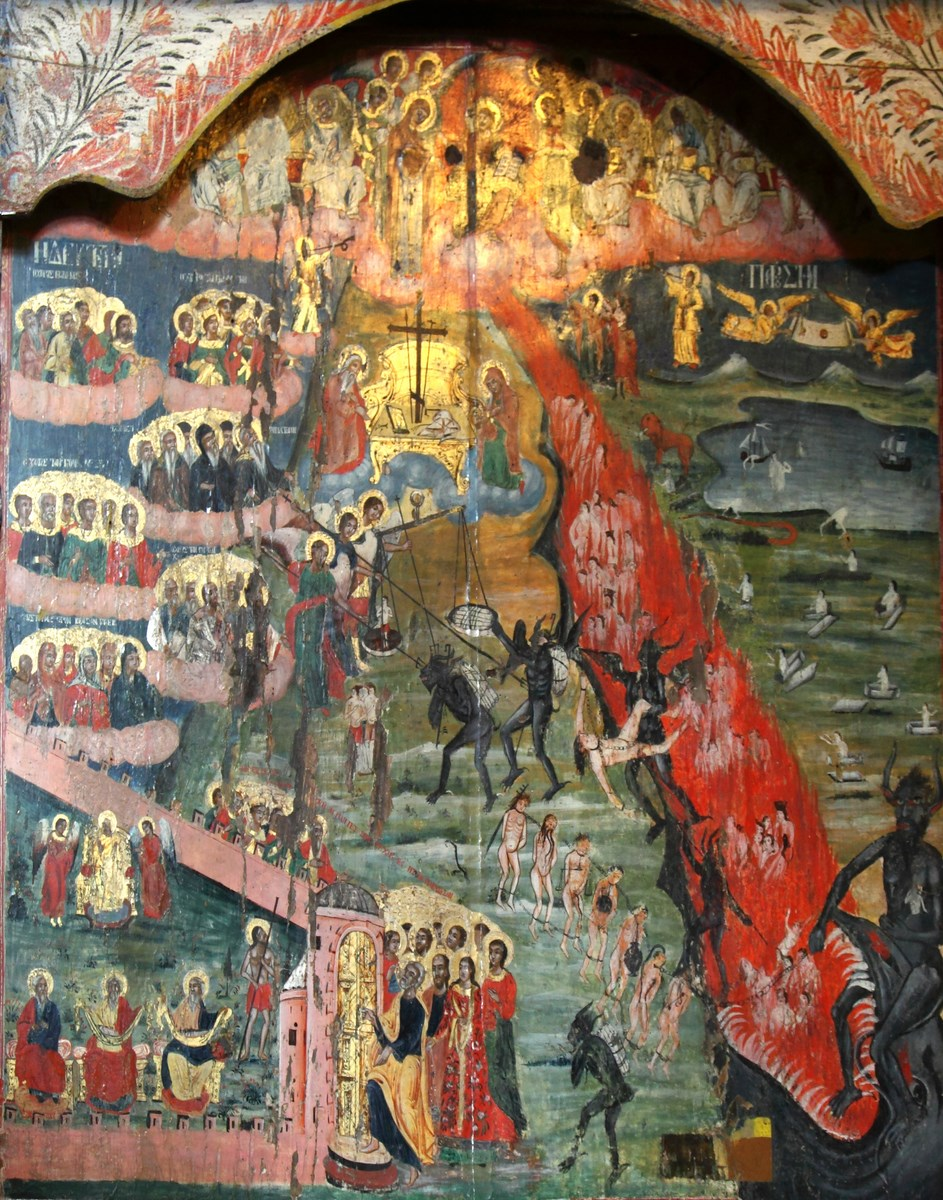 Agia Triada Kato Thodoraki Fresco